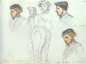 Sketches of john brown at age 23 by queen victoria. Another ghillie is at the top right